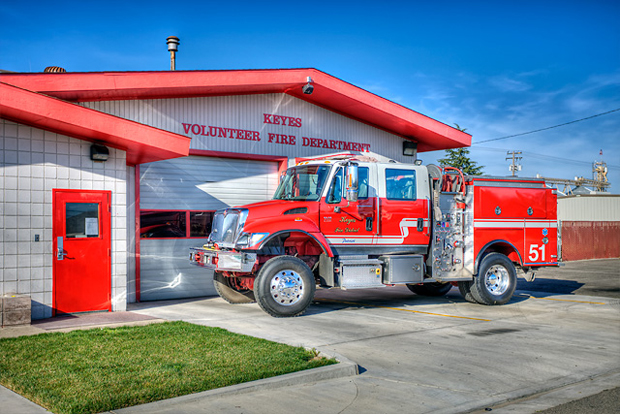 KEY B-51